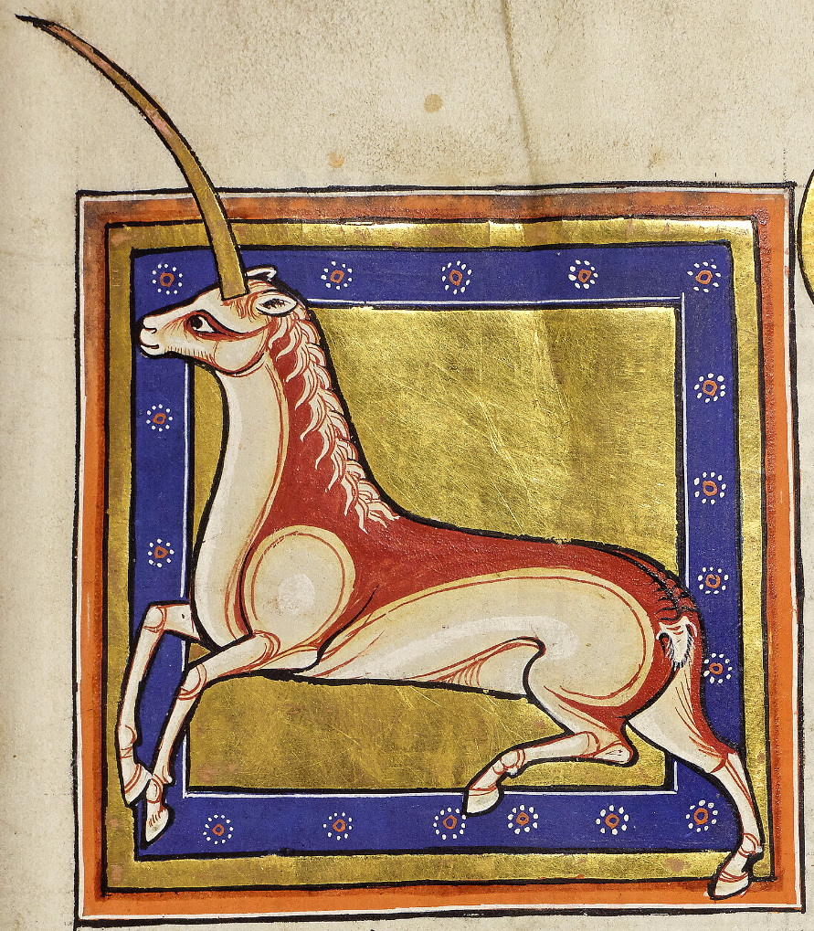 Aberdeen University Library, Univ. Lib. MS 24, The Aberdeen Bestiary, Folio 15r : Monoceros, England, ca. 1200.